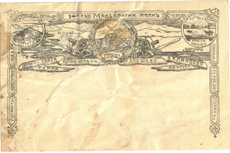 14 Infantry Macedonian Regiment Postcard Back